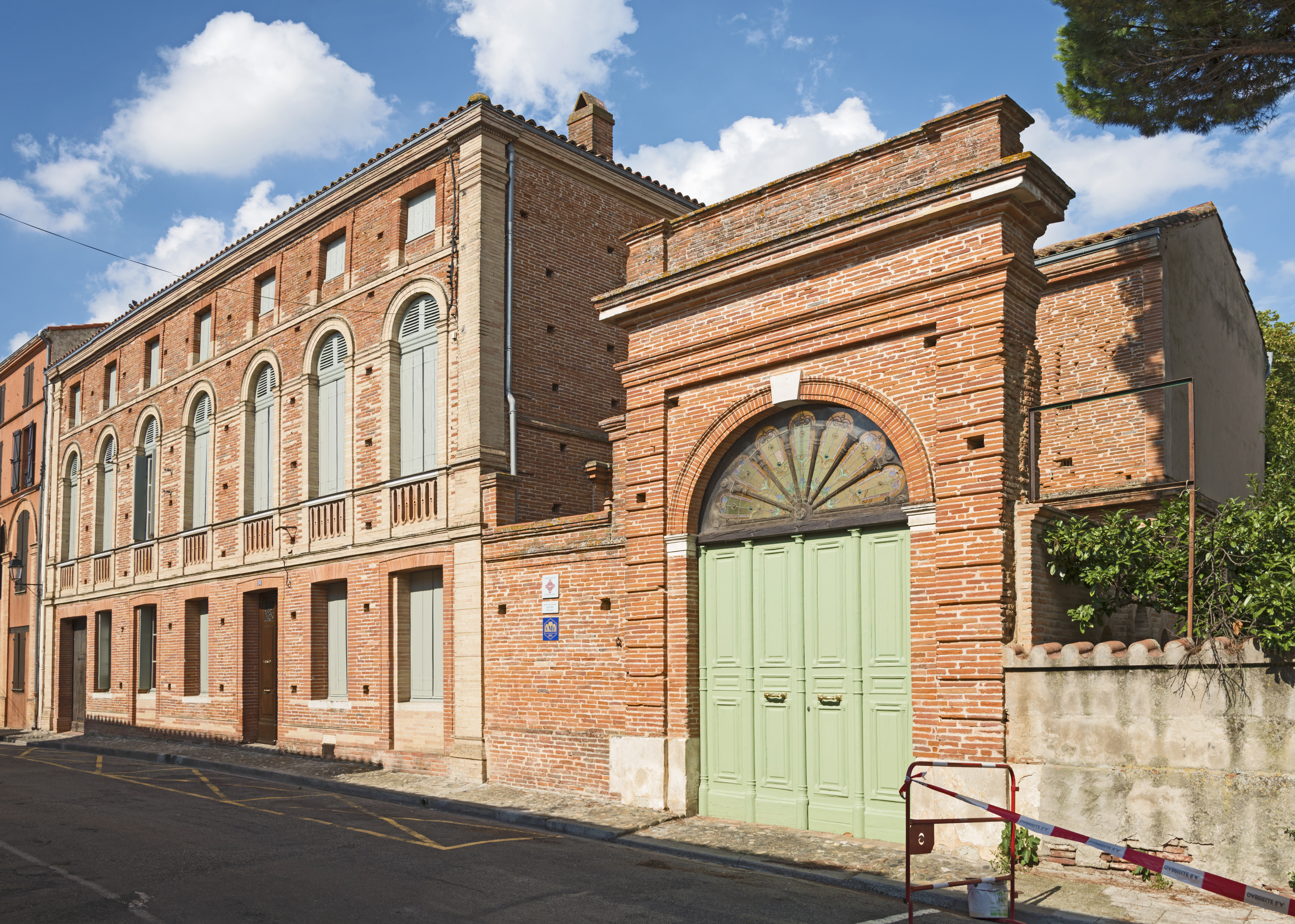 Grenade, Haute-Garonne, France. Ursuline convent.